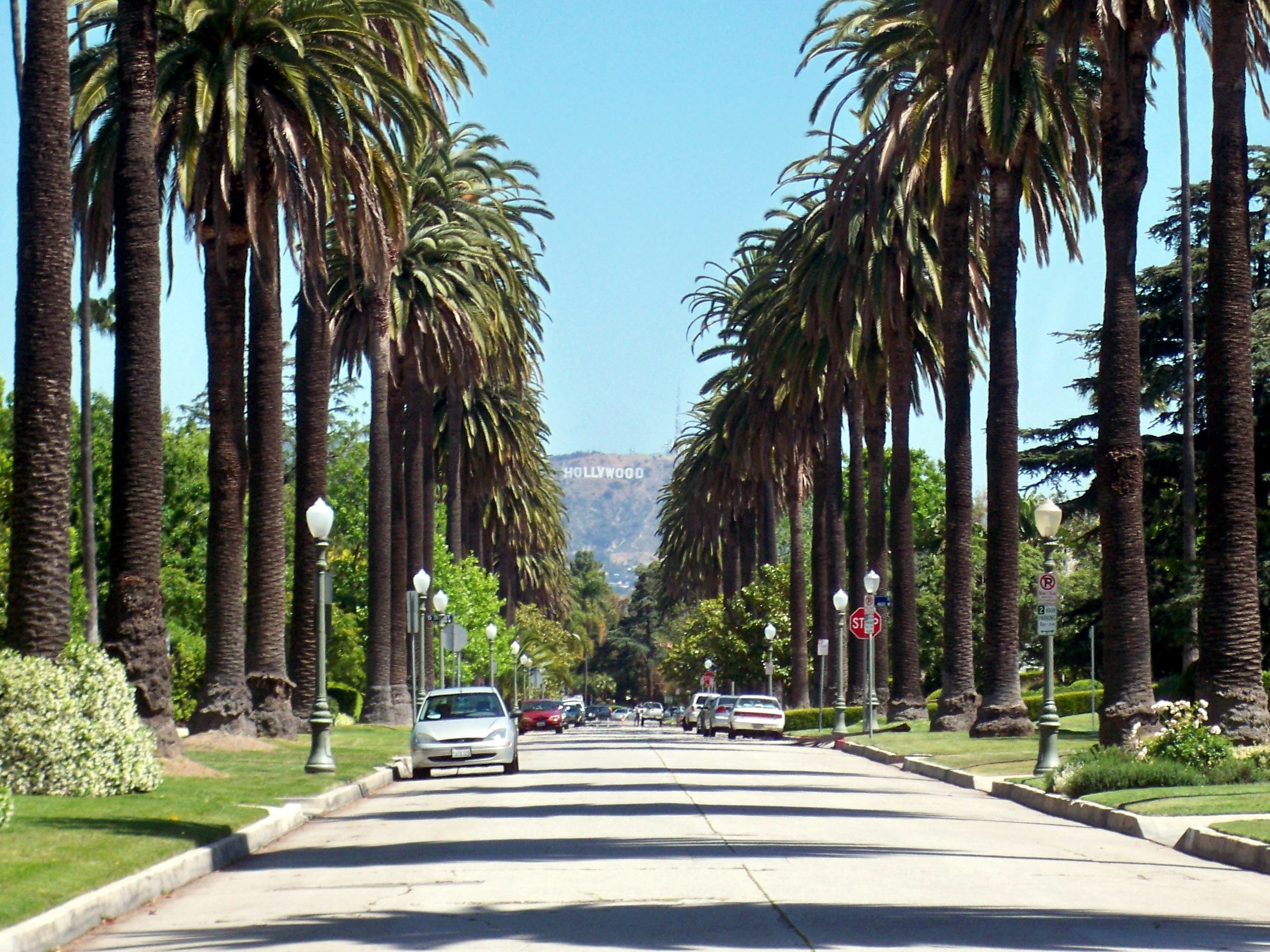 Typical palm-lined street in an affluent neighborhood of Los Angeles with the Hollywood sign in the background.